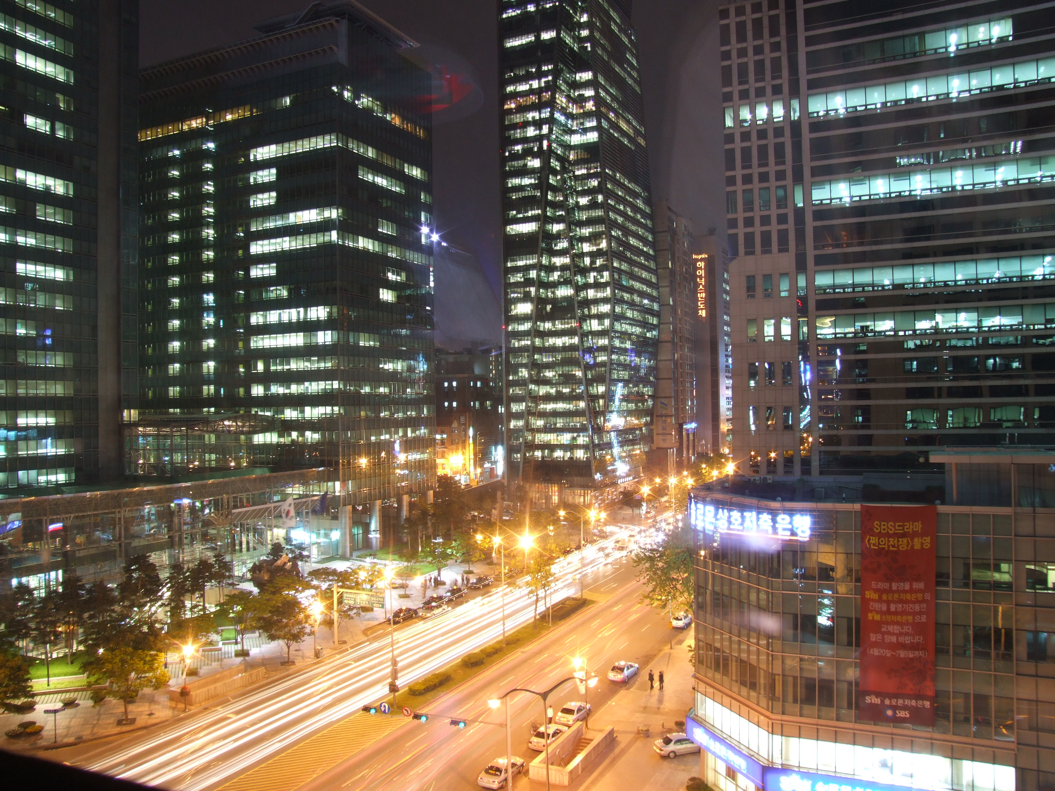 Teheranro (Teheran Avenue) area in Seoul, Korea